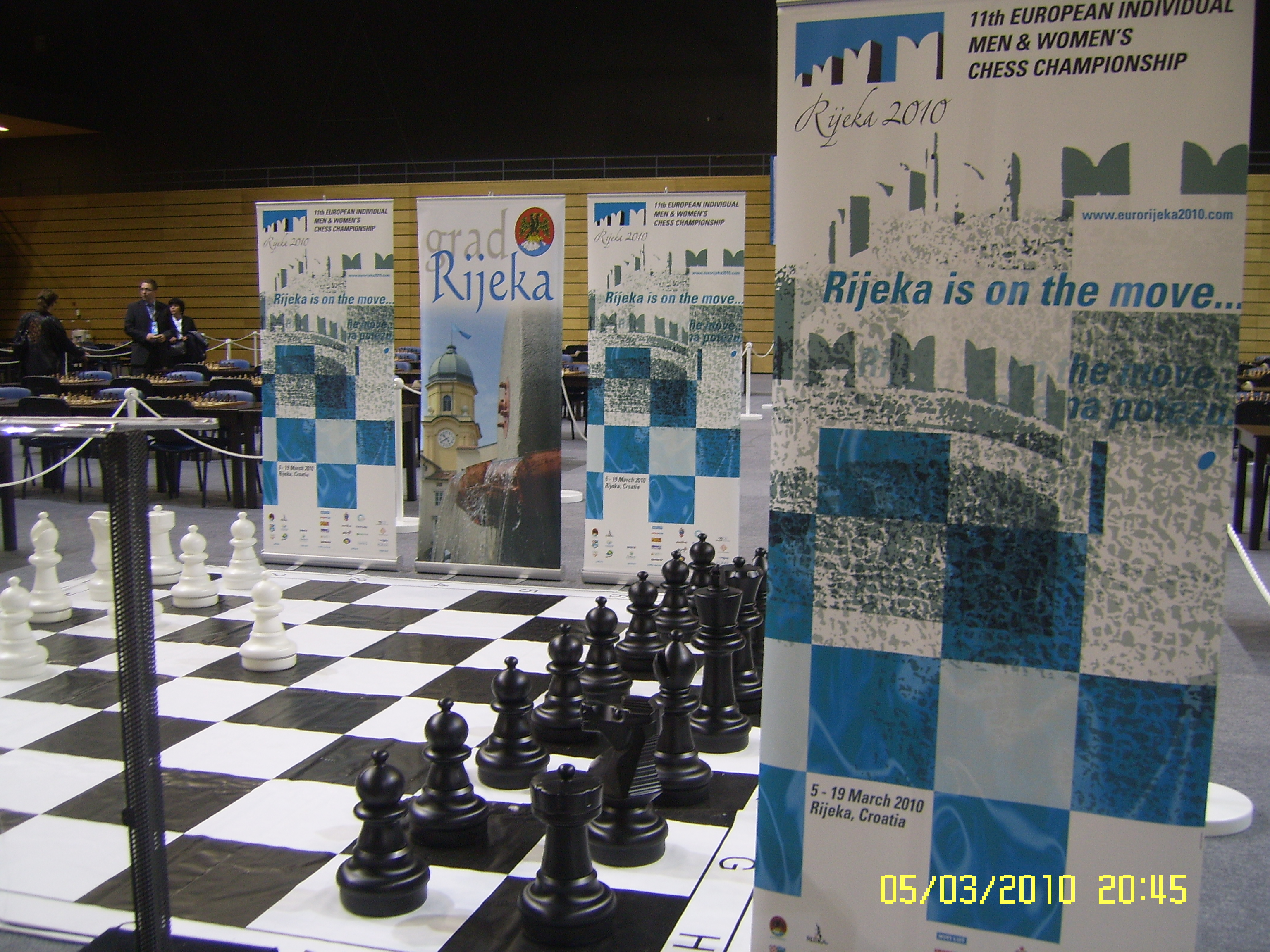 11th European Individual Men And Women's Chess Championship